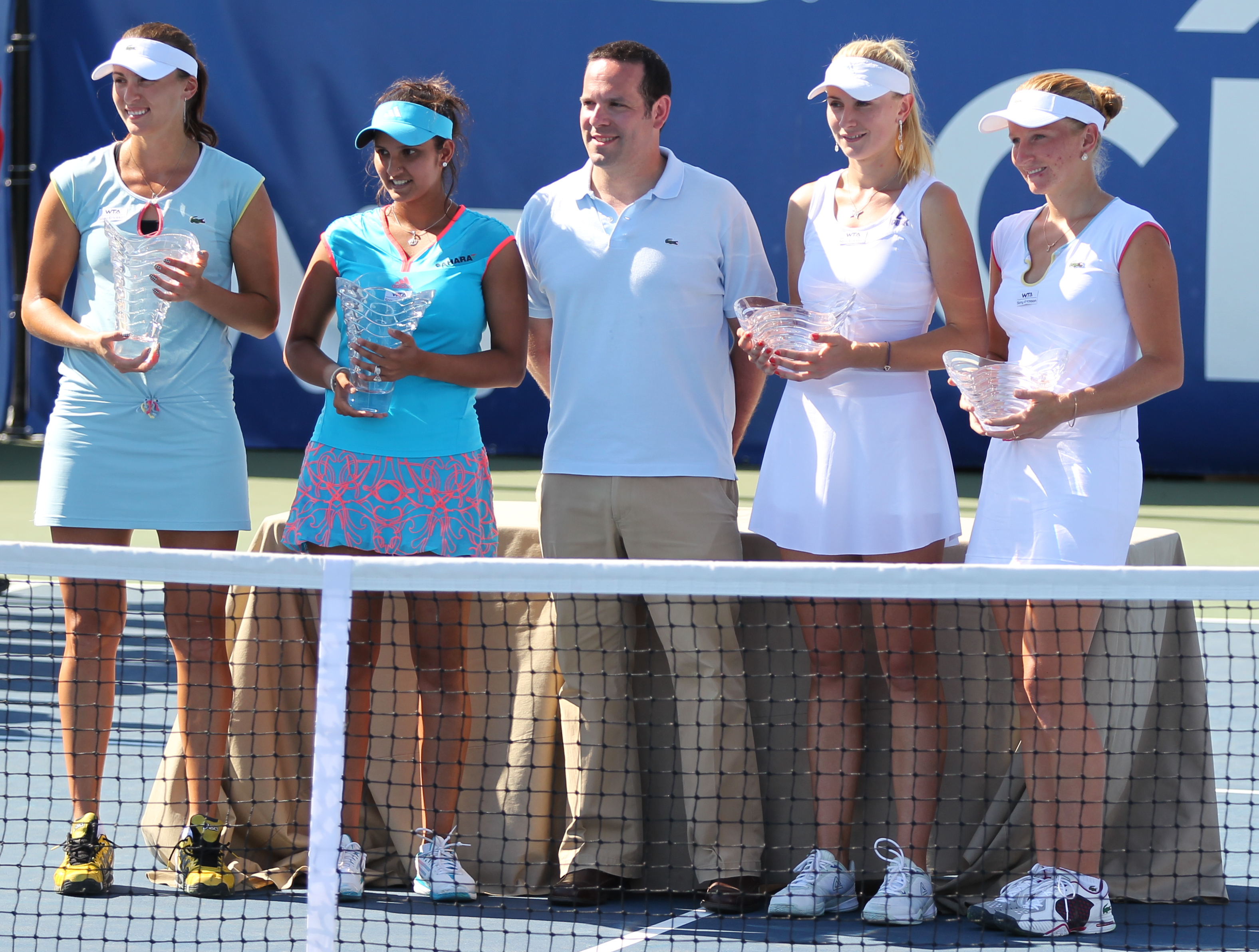 Citi Open Tennis Finals July 31, 2011